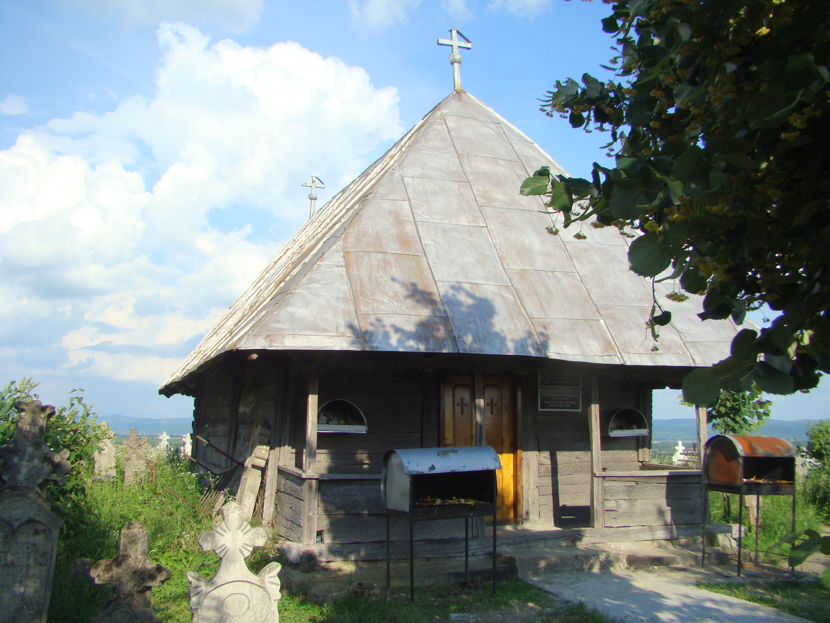 Wooden church in Bobu-Gorgania, Gorj county, Romania